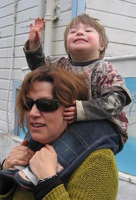 Cropped version of Image:Child piggyback.jpg. "A child (with Down syndrome) piggy-backing on an adult."